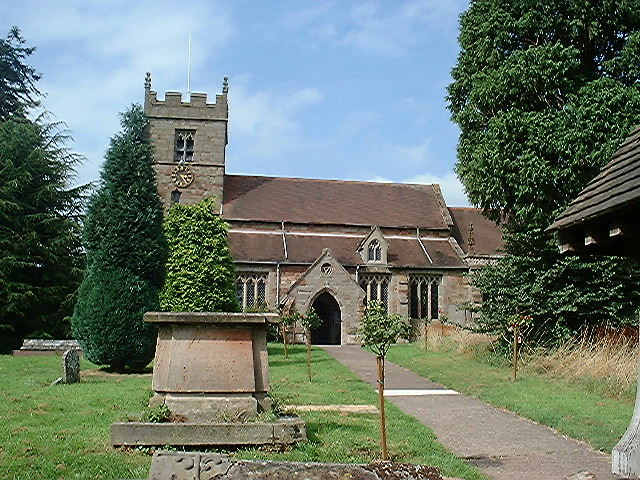 St John the Baptist Church at Claines